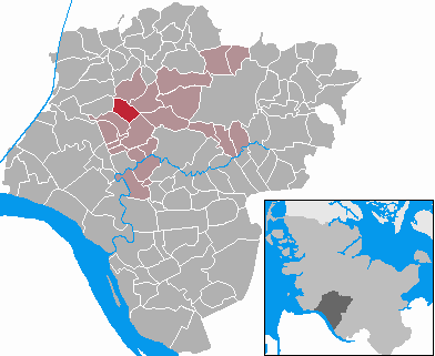 This map shows the area of the municipality Huje in the Kreis (district) Steinburg, Schleswig-Holstein, Germany.